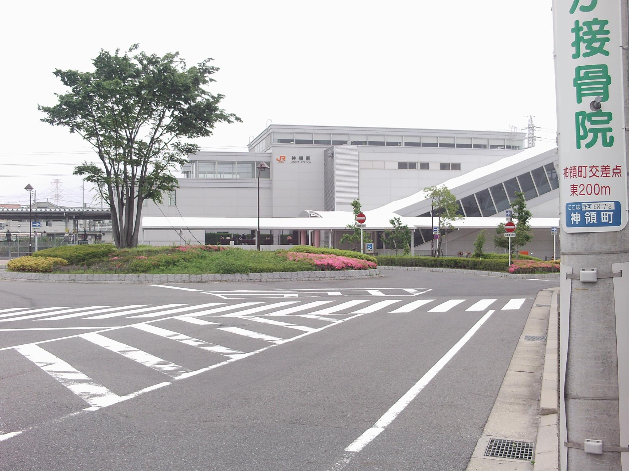 Aichi prefectural road No.450 in Jinryocho, Kasugai, Aichi. Starting point, Jinryo station.